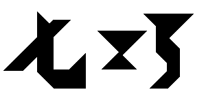 Chinese Character by Tangram